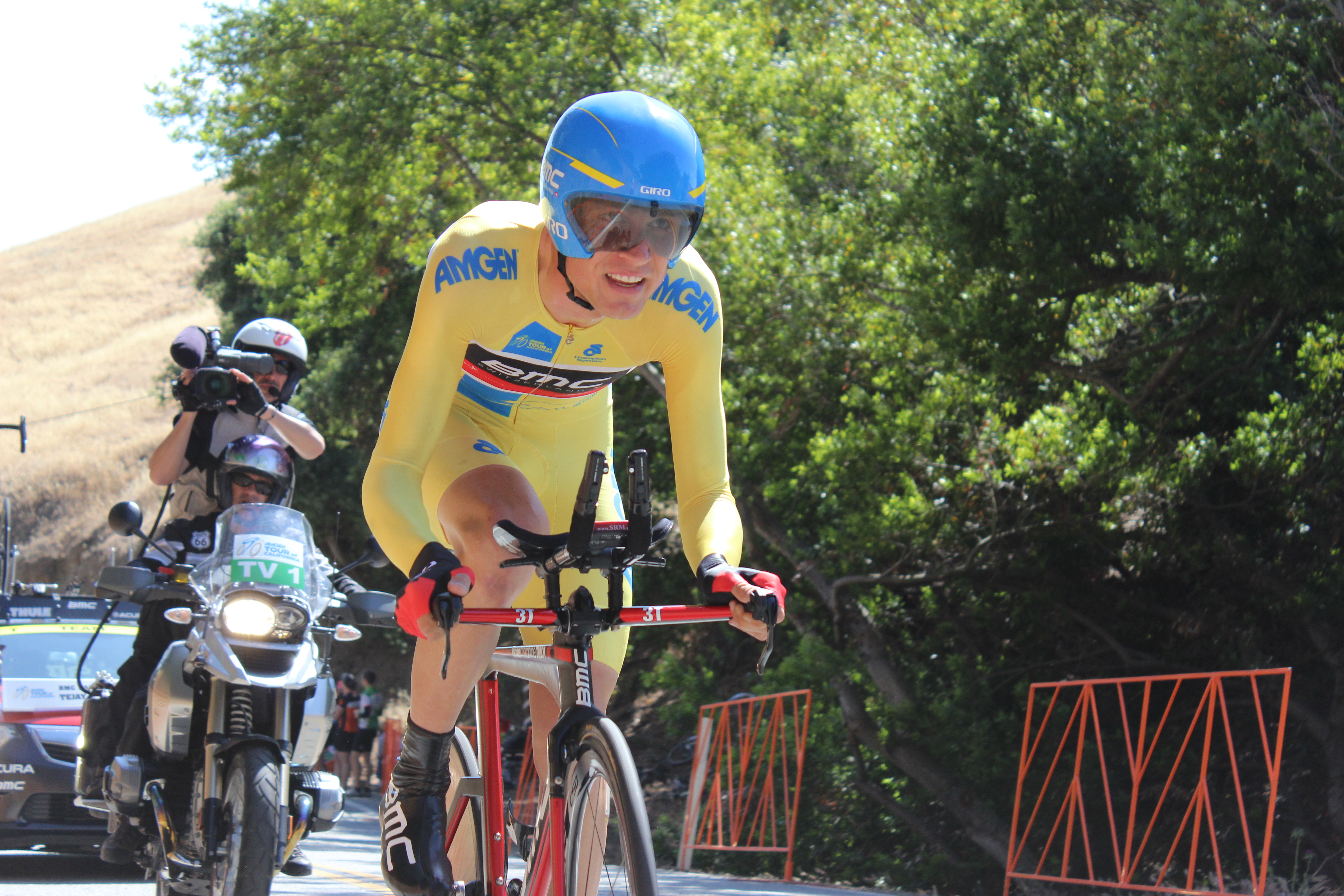 Final 1000 meters of the Tour of California, San Jose, Individual Time Trial